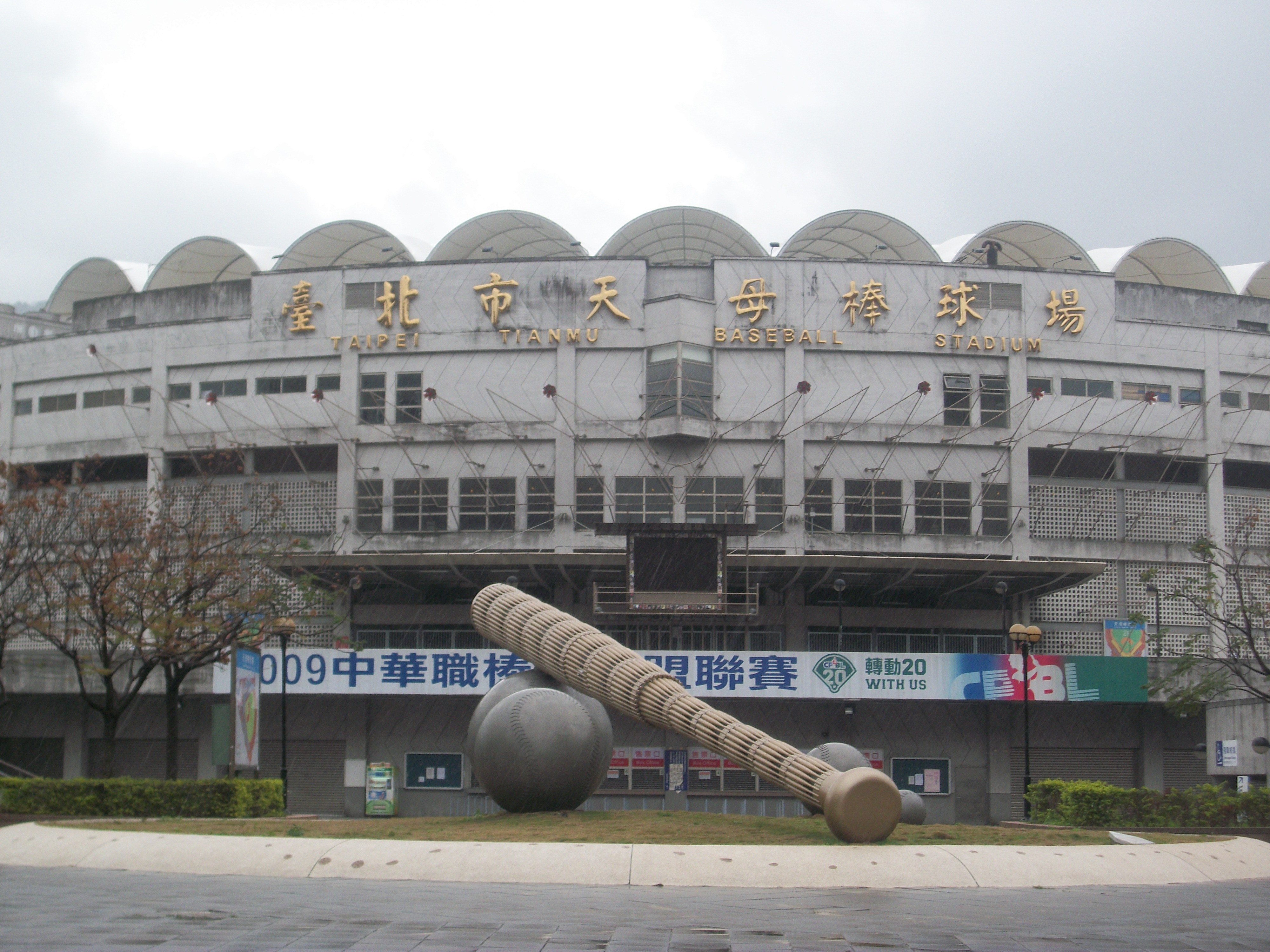 Tianmu Baseball Field in Taipei City.中文（台灣）: 位於臺北市的天母棒球場。